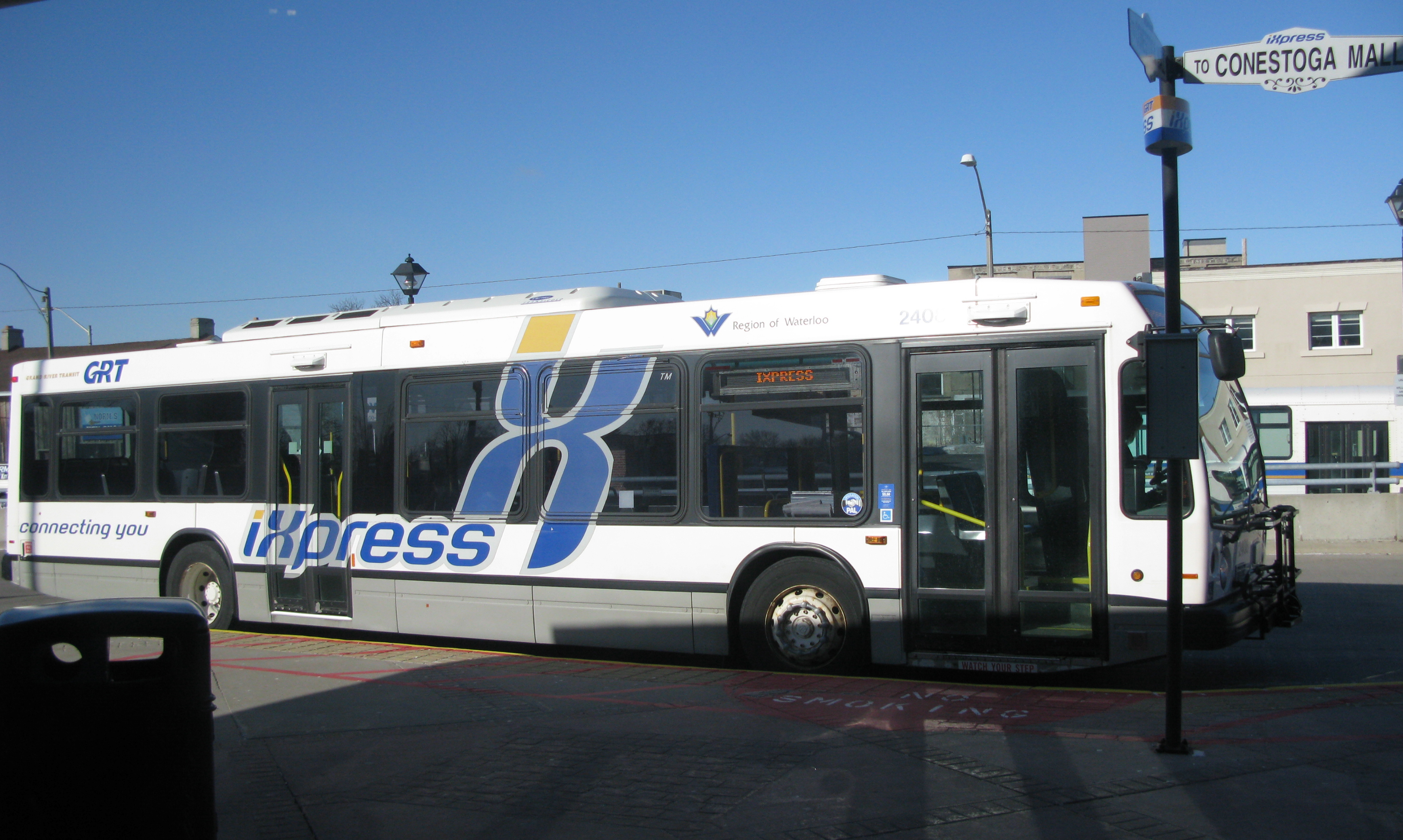 iExpress bus from Grand River Transit in the Region of Waterloo, Ontario, Canada. Photographed at Ainslie Station in Cambridge, Ontario on March 2, 2009.